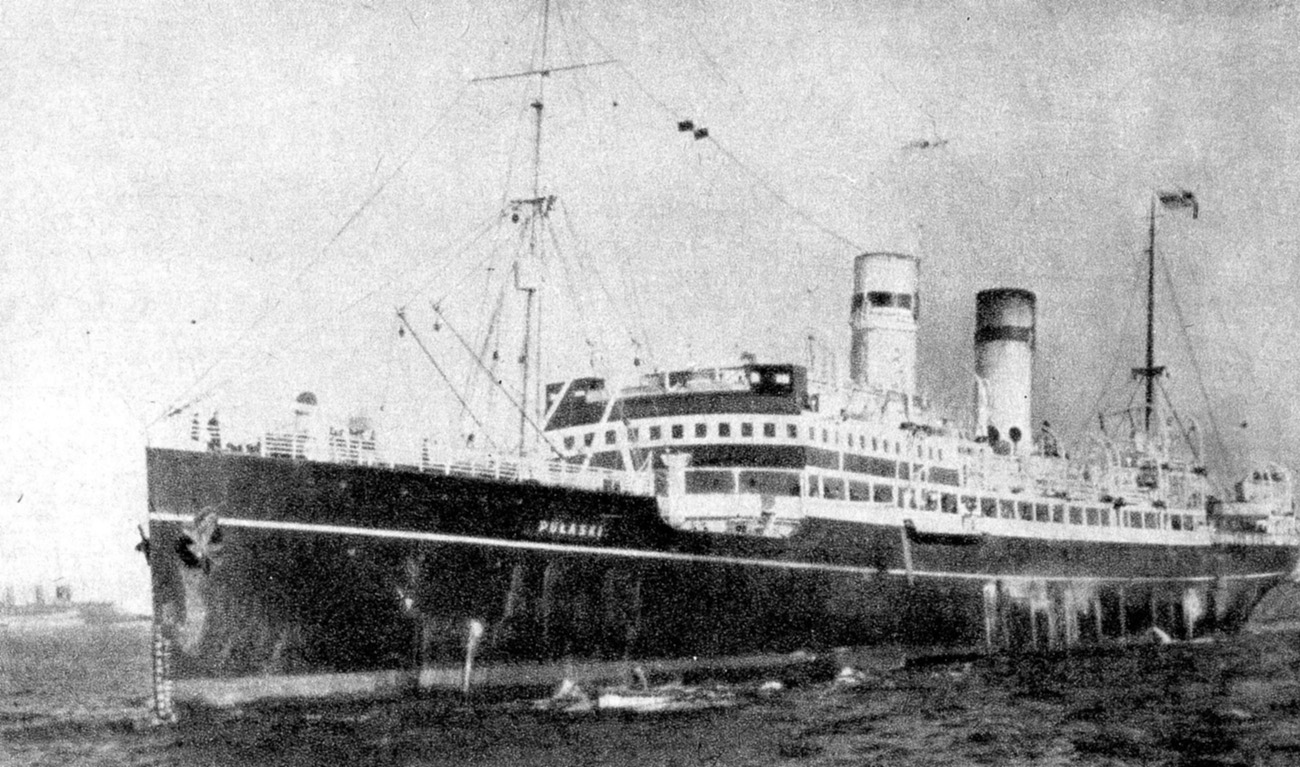 Old Polish Passenger Ship "Pulaski" in Gdynia Information about Pulaski may be found at IMO 1142324. A ship can change her name and flag state through time, but the IMO number remains the same through the hull's entire lifetime. Therefore, it's useful to identify a ship through her IMO number.